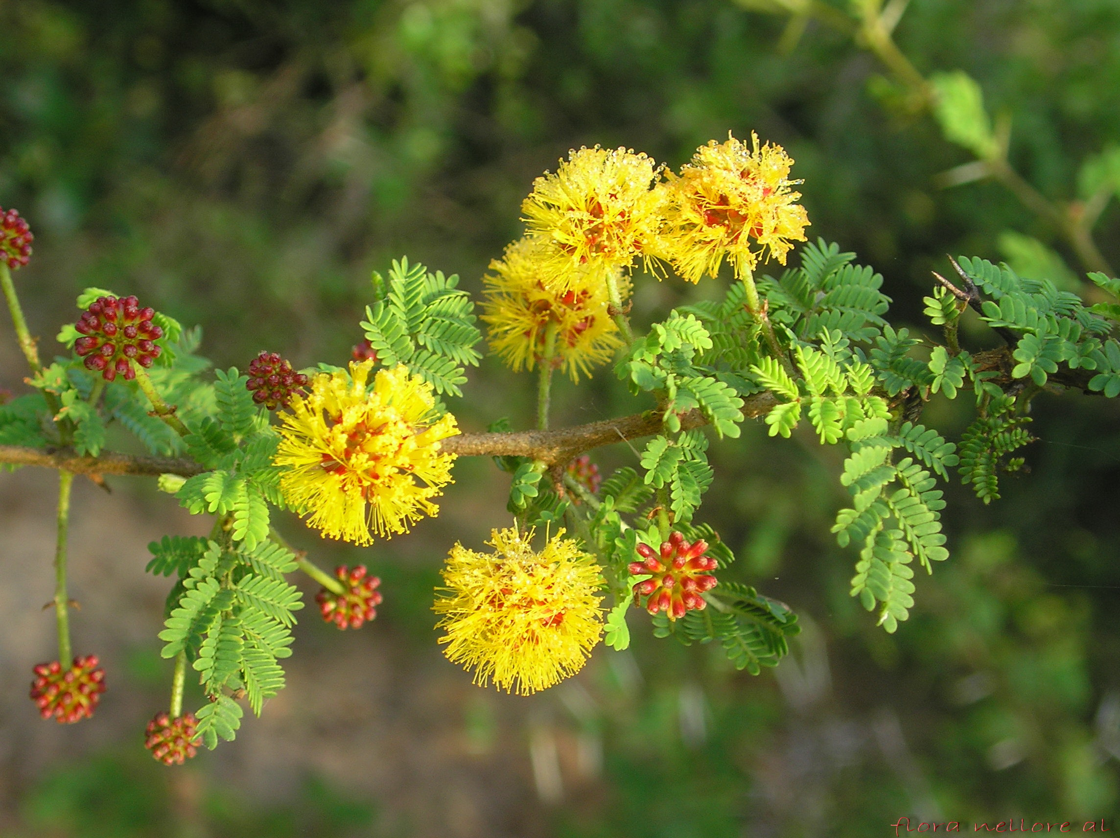 Family; Mimosacea Distribution: Common in hilly areas of dry deciduous forests. Limited to Peninsular India.Photographed at Eastrenghats of Nellore district. Description: 2.5-3.5mts tall small tree with large ivory -white thorns. Leaves 2-3cm long, 4pairs of pinnae,leaf lets 7-8pairs , leaflets 2x1mm,elliptic or obovate, obtuse. Flowers heads on axillary peduncles, peduncles bracteate below the middle,0.6-1cm across, flowers hermaphrodite, with redpurple corolla and yellow stamens,Calyx companulate, petals united, stamens numerous, free, anthers small, ovary sessie, 5-9ovuled. Pod very thin, flat curved in a hook, 5-7 seeded. This species is not recorded in Flora of Nellore district by B.Suryanarayana and A.S.rao.